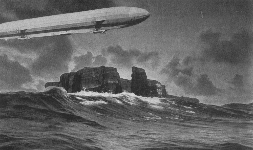 The German Zeppelin LZ 14 (L 1) near Heligoland.